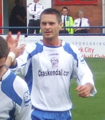 Ashley Winn playing for Barrow against York City at Bootham Crescent, York on 25 August 2008